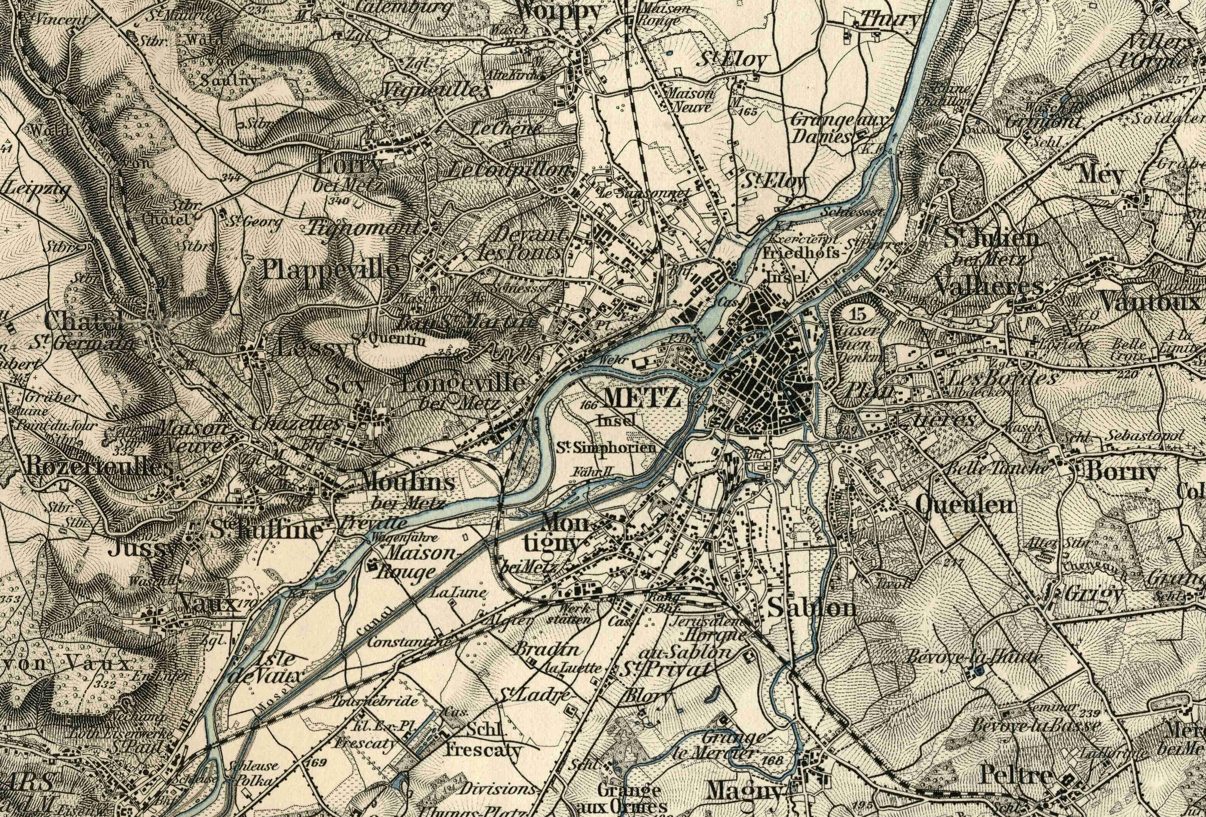 Railway Lines around the city of Metz, Lorraine, after Construction of new main Station in 1908 Part of "Karte des Deutschen Reiches", 1:000.000, Sheet 568 "Metz", last addenda made in 1893.